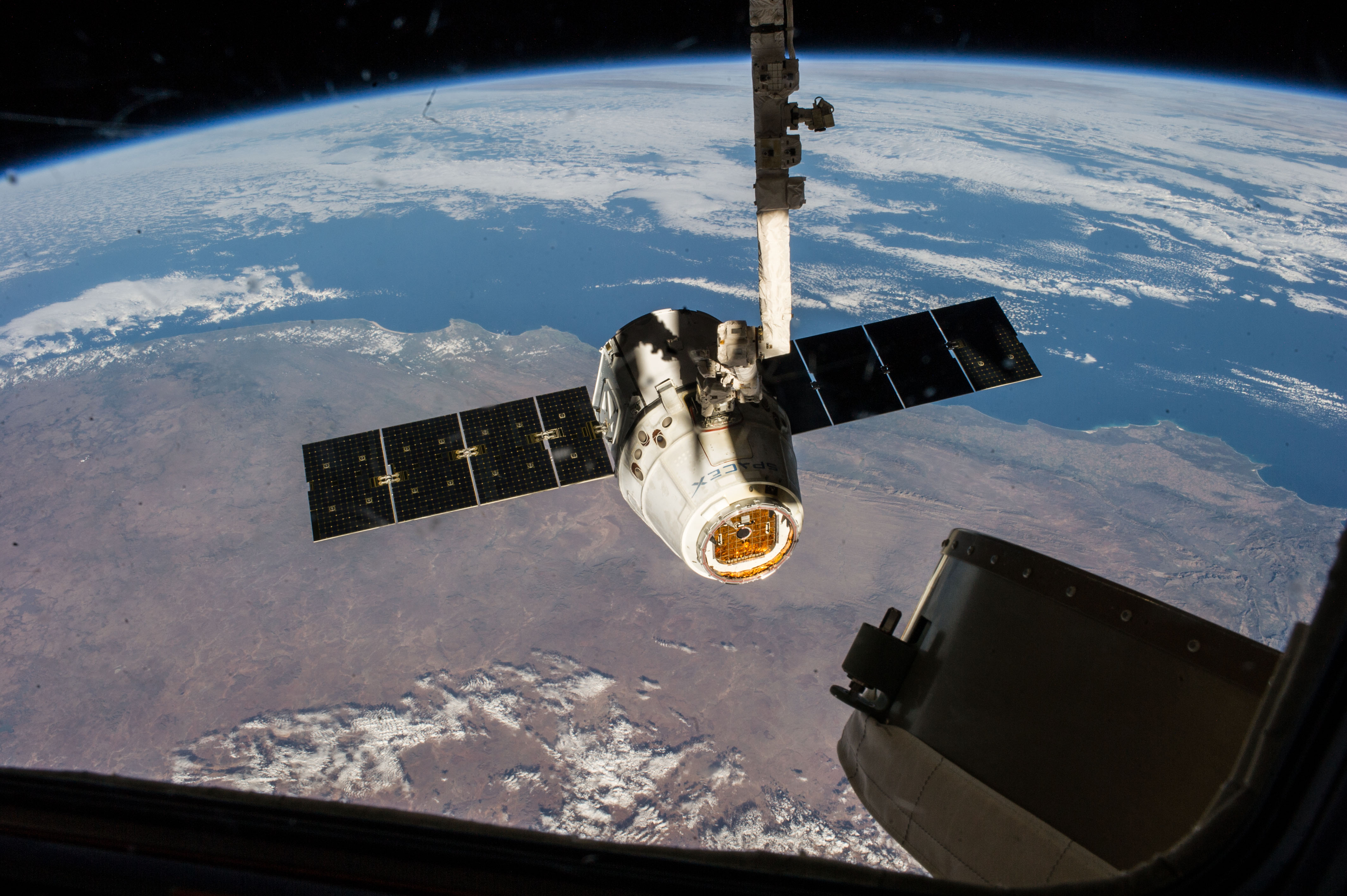 The SpaceX Dragon commercial cargo craft is pictured just prior to being released by the International Space Station's Canadarm2 robotic arm on May 18, 2014, to allow it to head toward a splashdown in the Pacific Ocean. South Africa can be seen as the land mass in the picture.